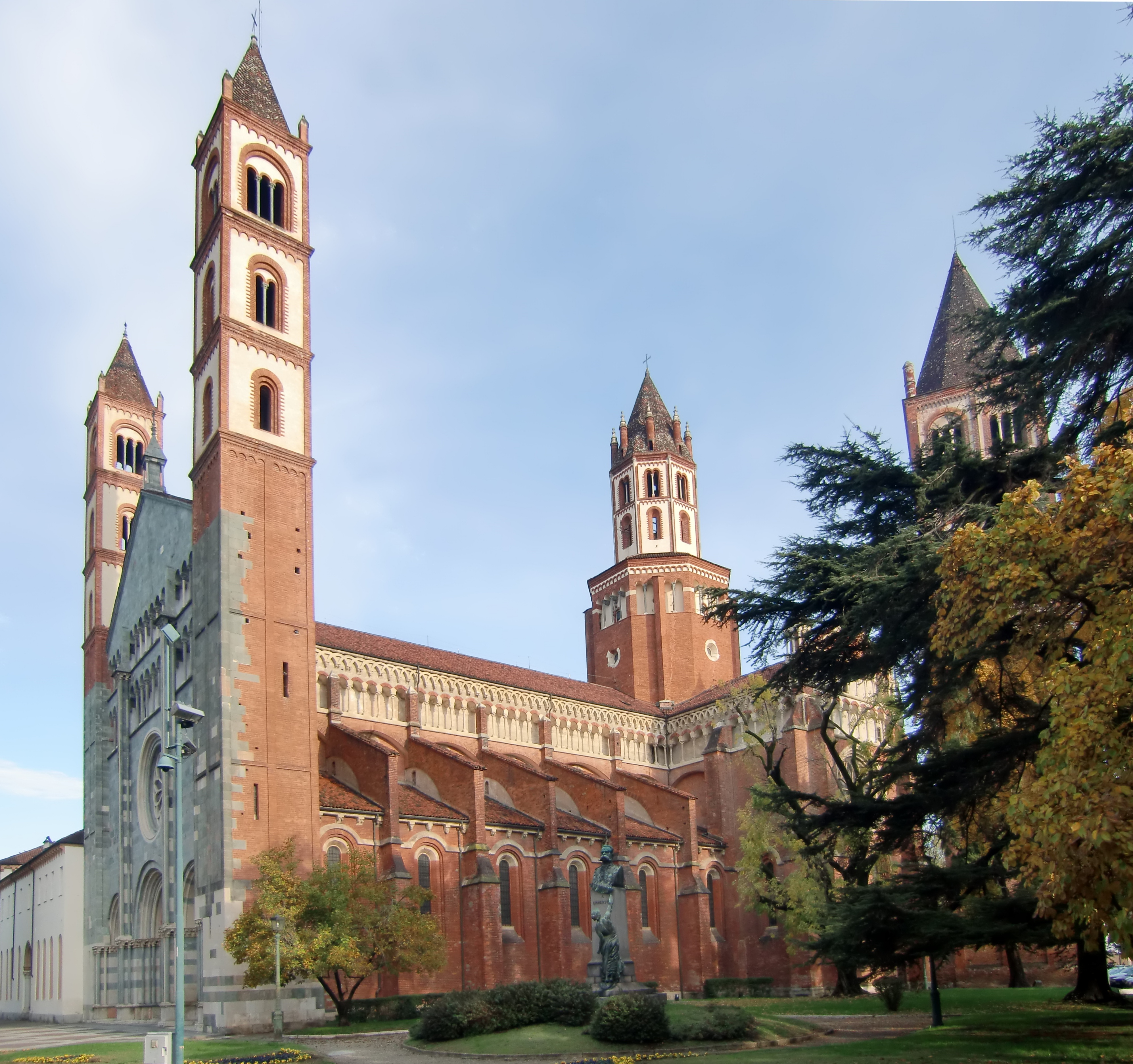 Vercelli, Cathedral of Sant'Andrea, 1229-27, the right side of the church